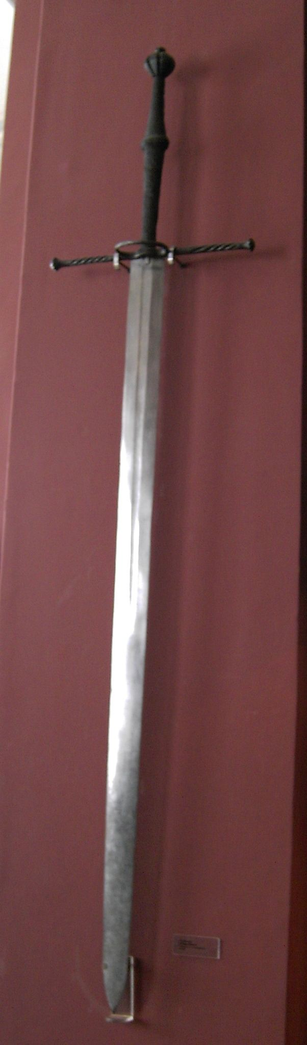 Dresdner Zwinger, 16th or 17th century armour and weapons, Zweihänder. Bihanded sword.